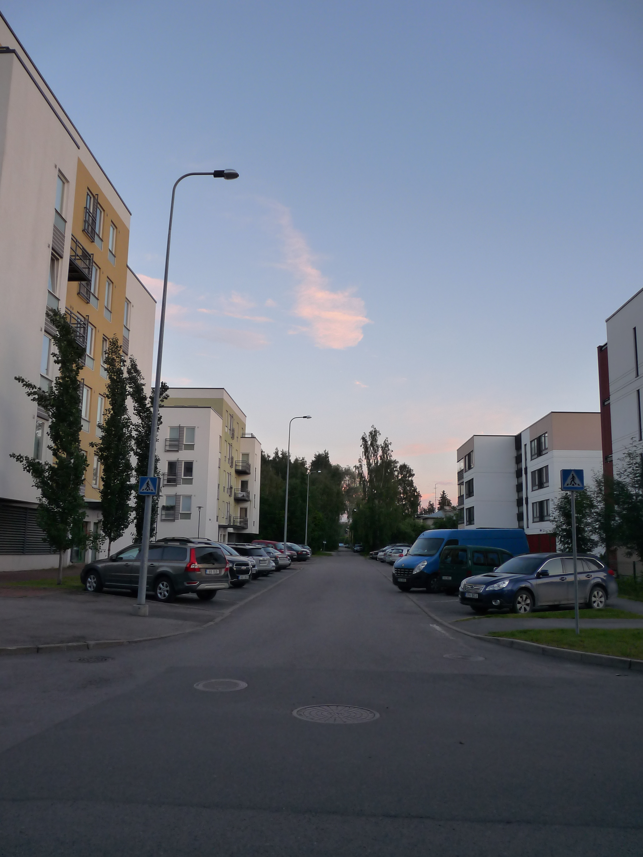 Varese street in Tallinn, Estonia